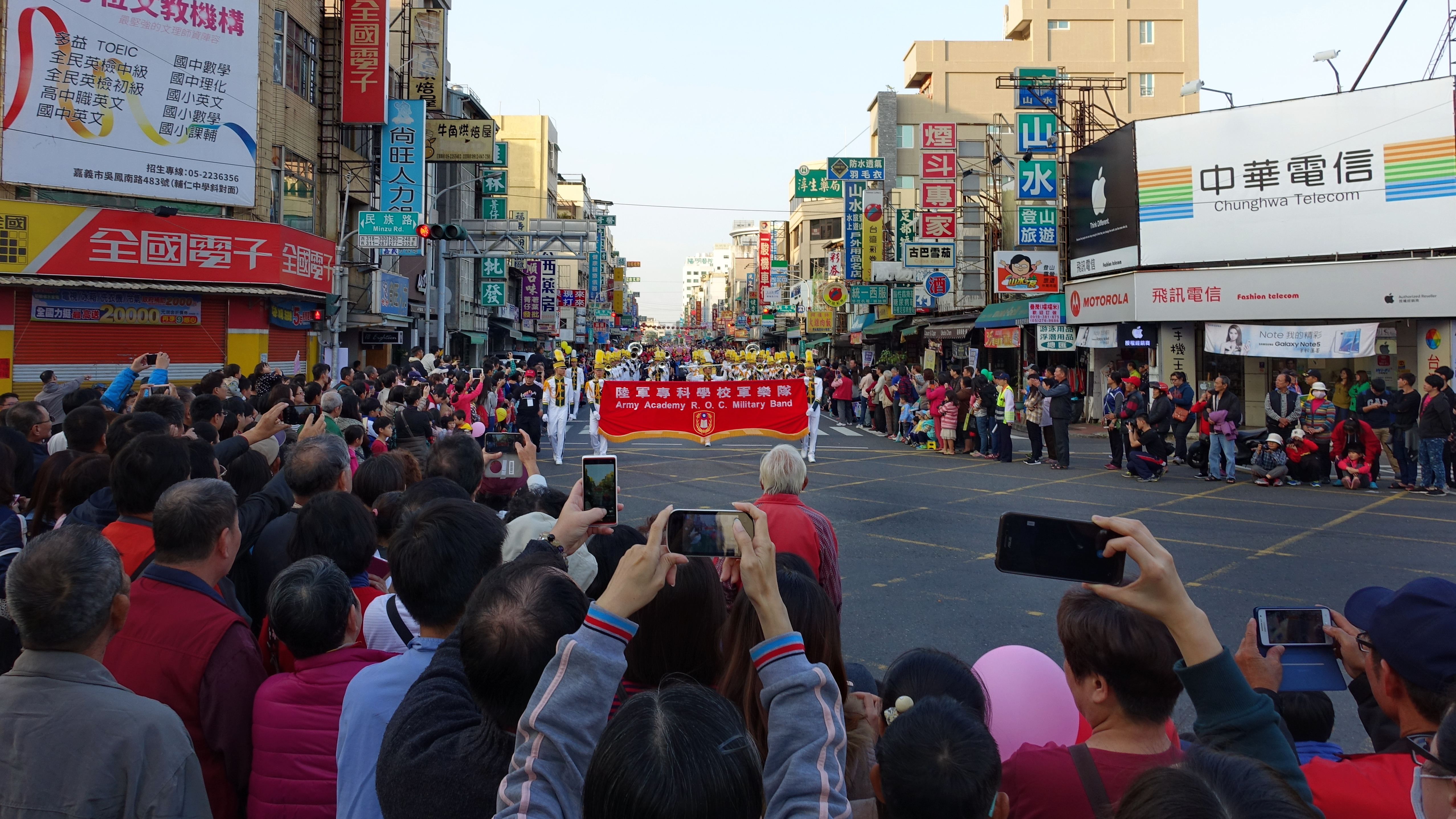 2015 Chiayi City International Band Festival, marching bands at Wufeng North Road near Minzu Road, Chiayi City, Taiwan.